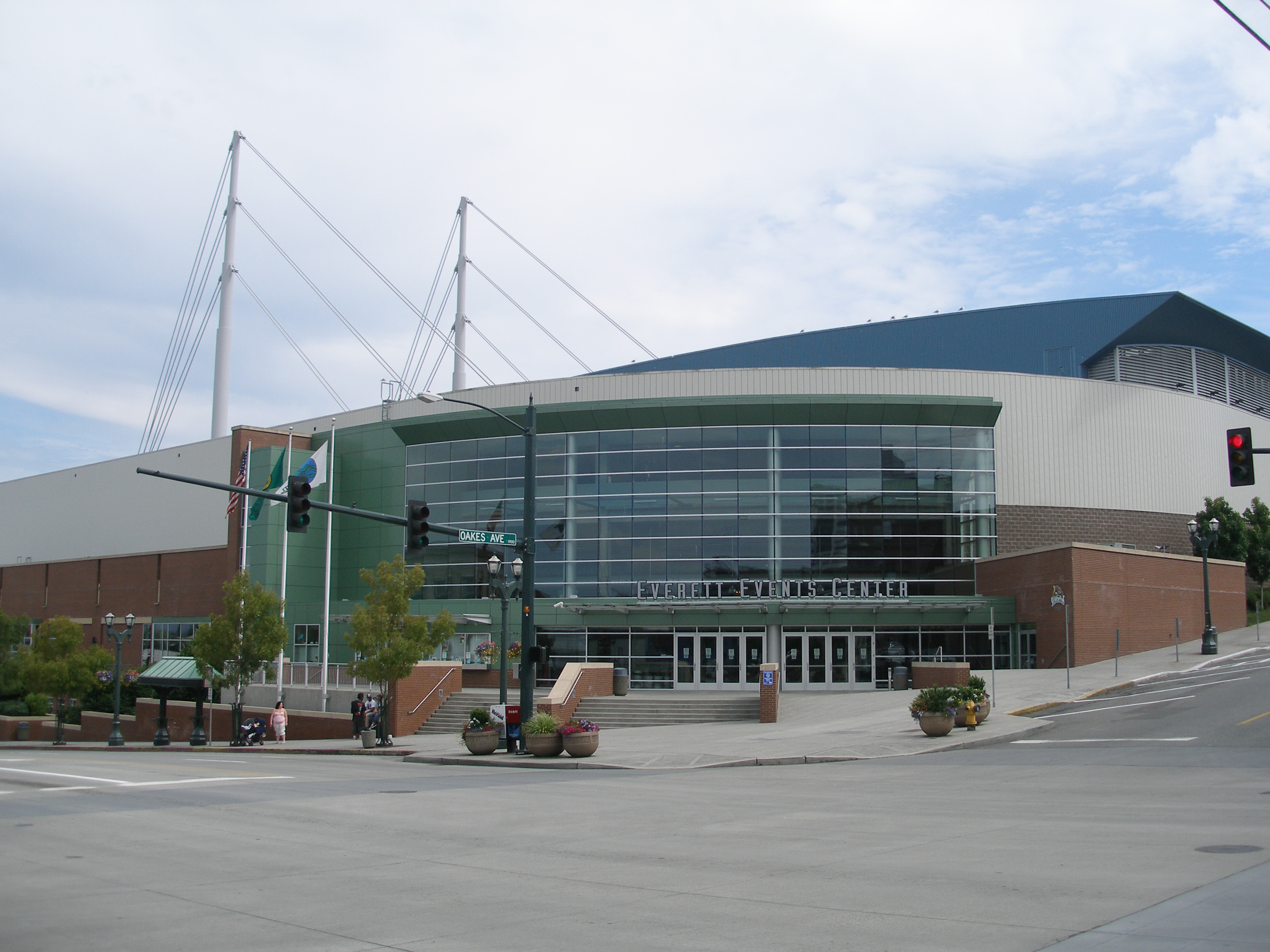 Everett Events Center, Everett, WA. (Now Comcast Arena)